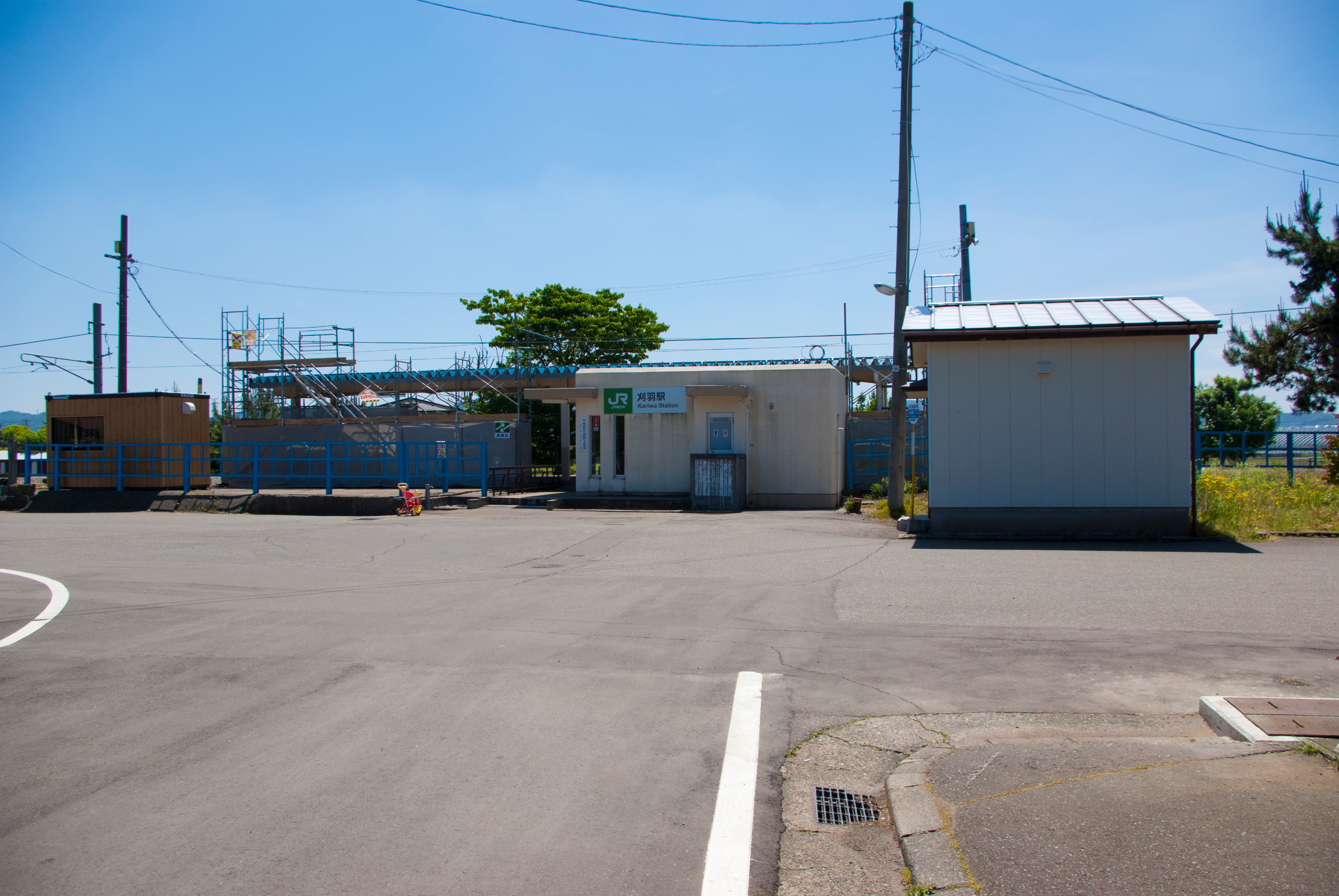 JR East Echigo Line Kariwa Station